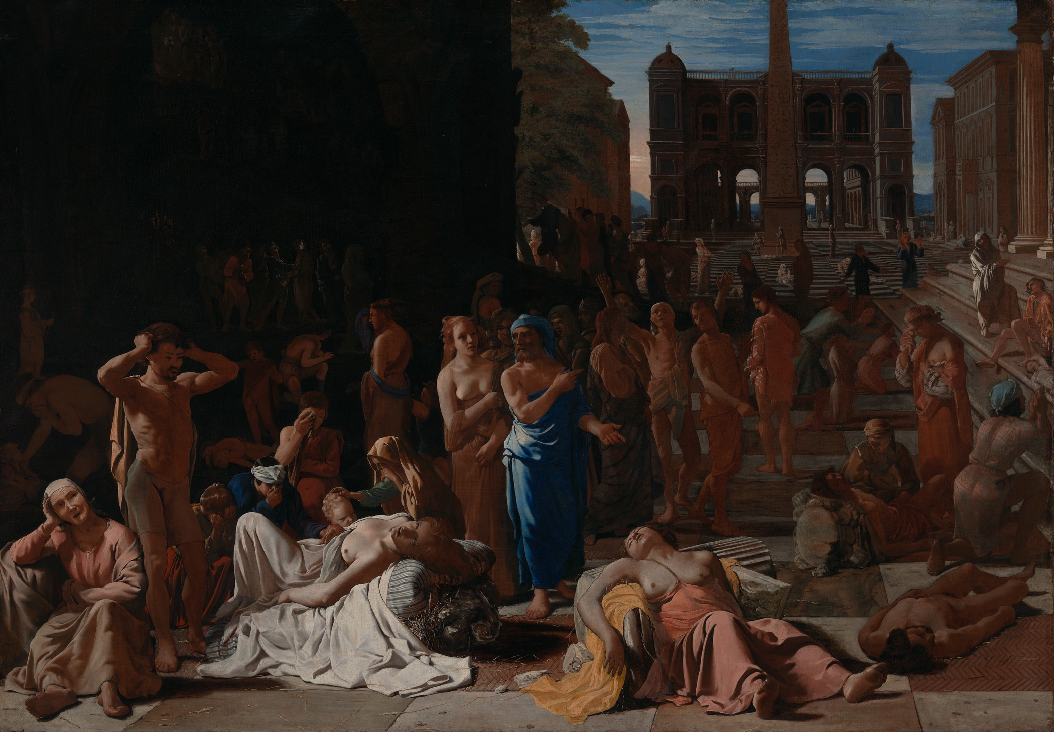 Holland Paintings Gift of The Ahmanson Foundation (AC1997.10.1) European Painting Currently on public view: Ahmanson Building, floor 3 The painting is believed to be referring to the plague of Athens or have elements from it (i.e. as per Plague in an Ancient City, by Michael Sweerts, circa 1652, represents the Plague of Athens, Thucicydes and the Plague of Athens)